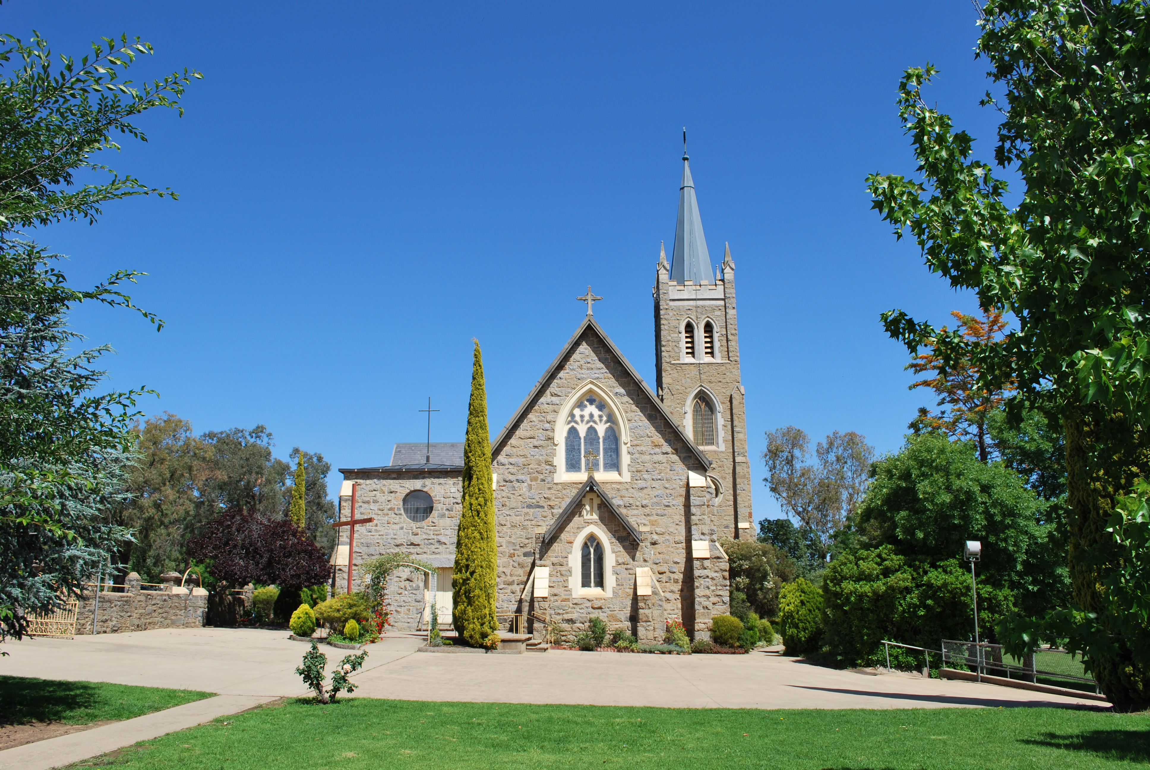 St Mary's Roman Catholic church at Young, New South Wales